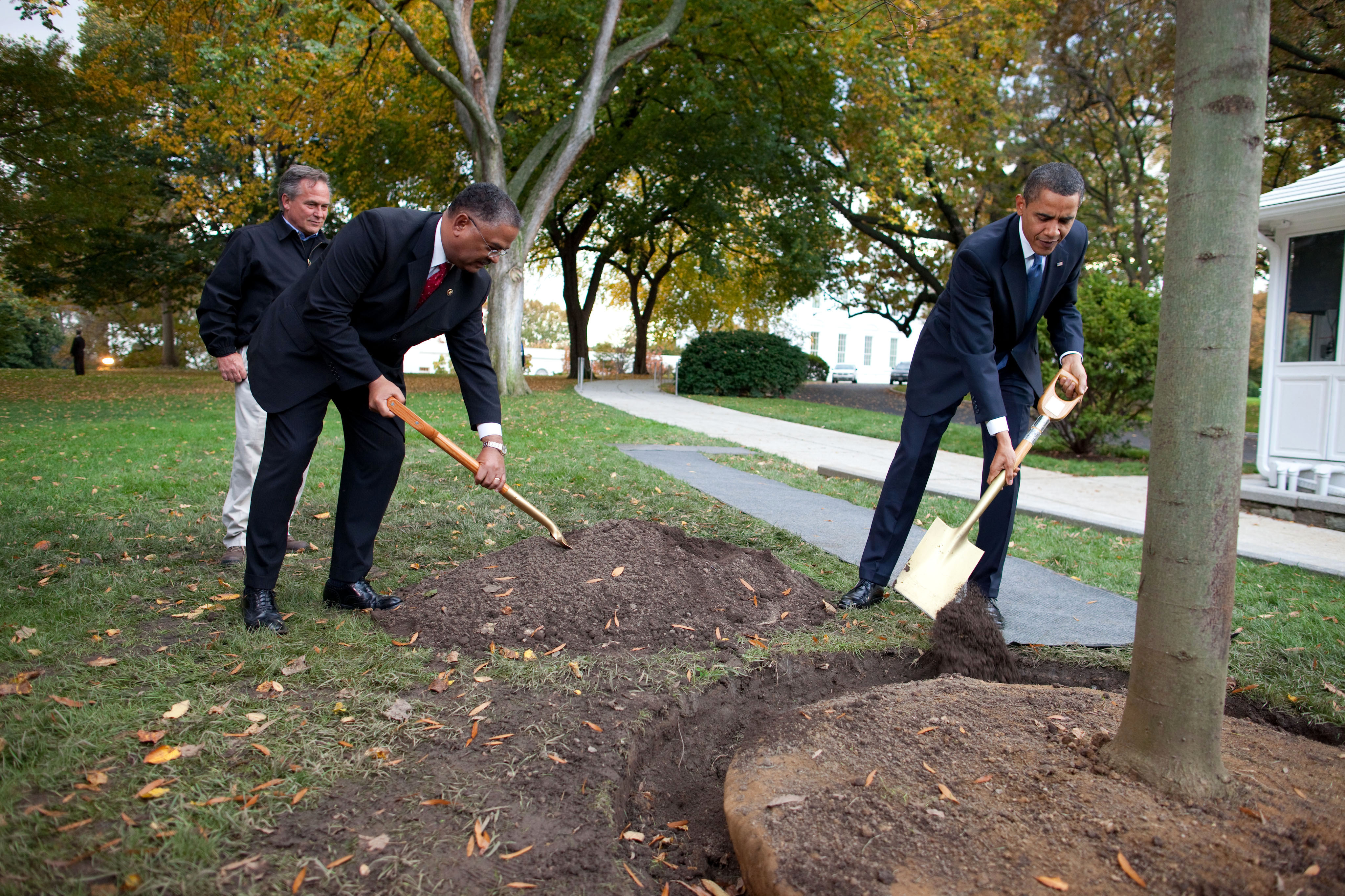 President Barack Obama, along with Grounds Superintendent Dale Haney and White House Chief Usher Rear Admiral Stephen W. Rochon (Ret.), participates in a commemorative tree planting ceremony on the North Grounds of the White House, October 28, 2009.